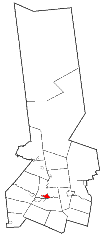 Map of Herkimer County highlighting Herkimer (village)